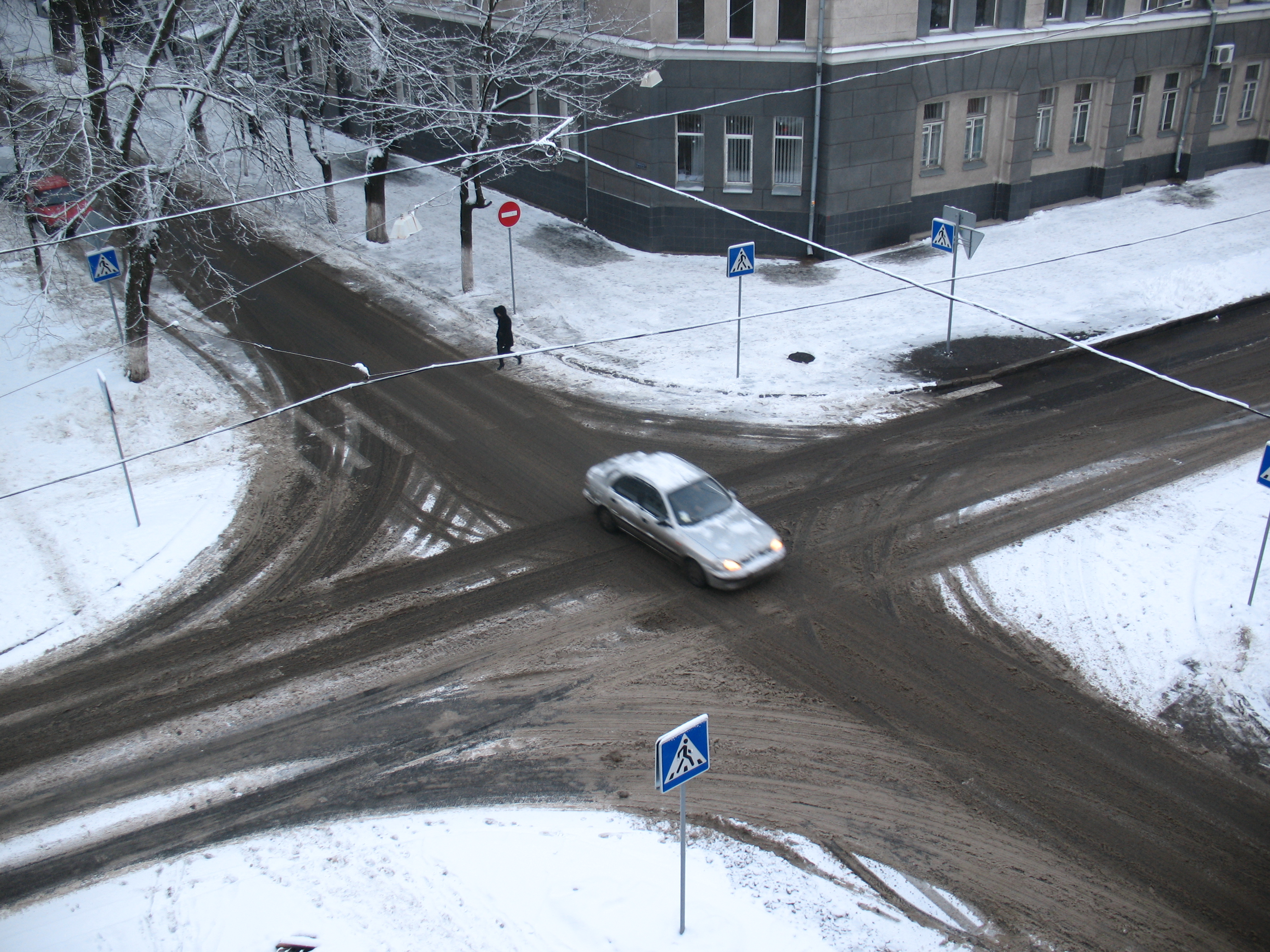 Crossroad in winter. Kharkov City.